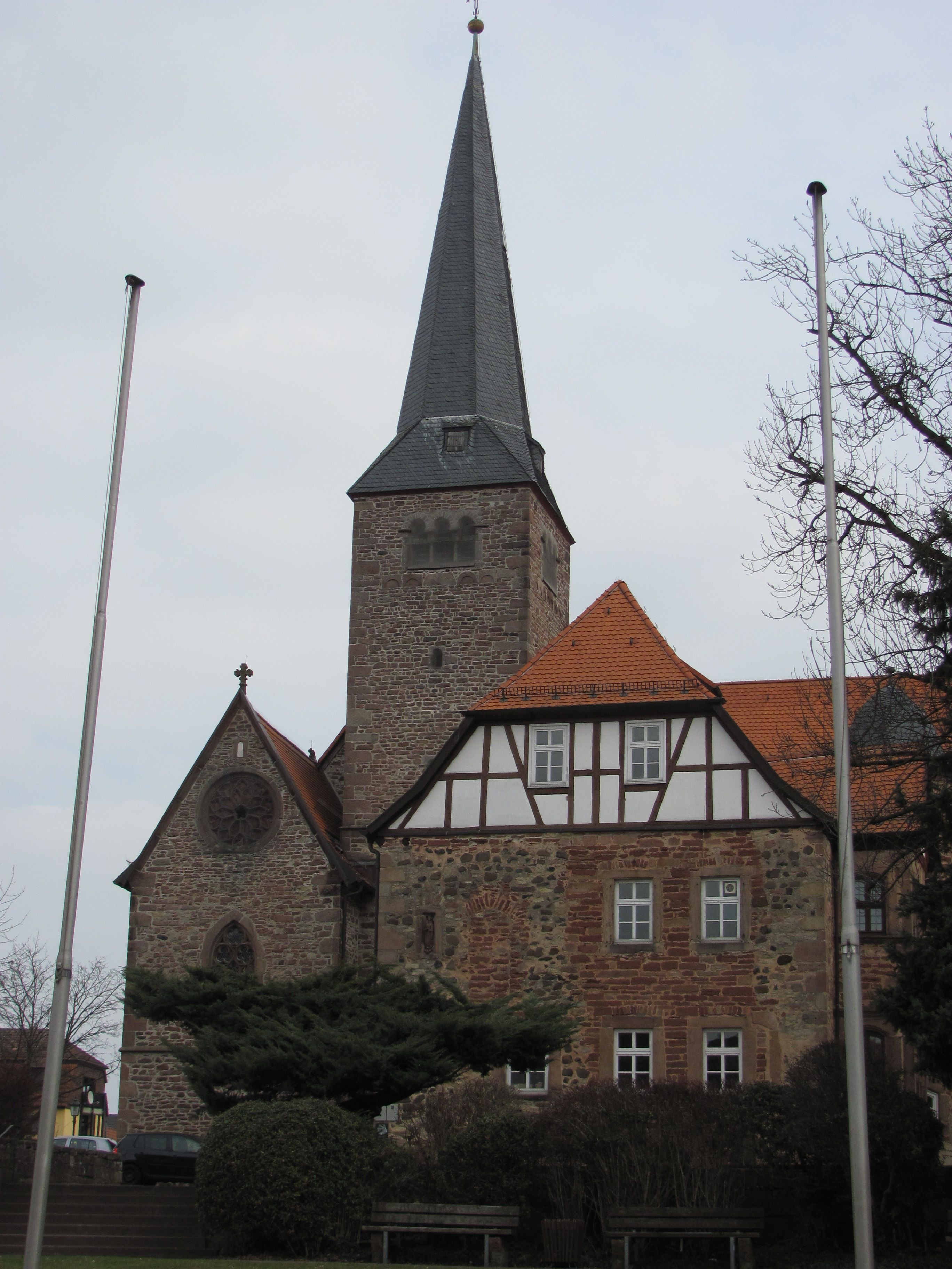 Schlüchtern Monastery, Church from West